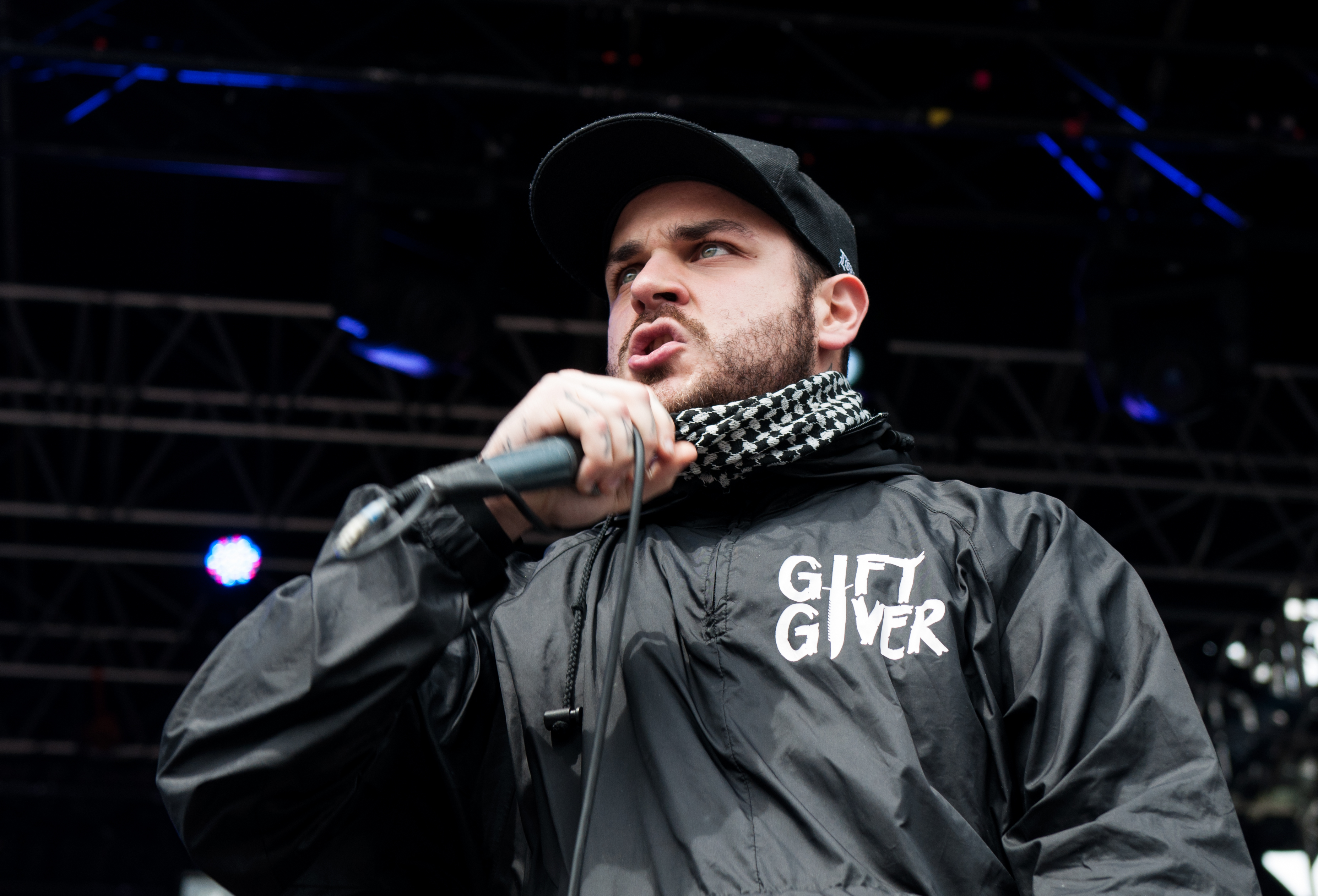 Emmure at Vainstream Rockfest 2014